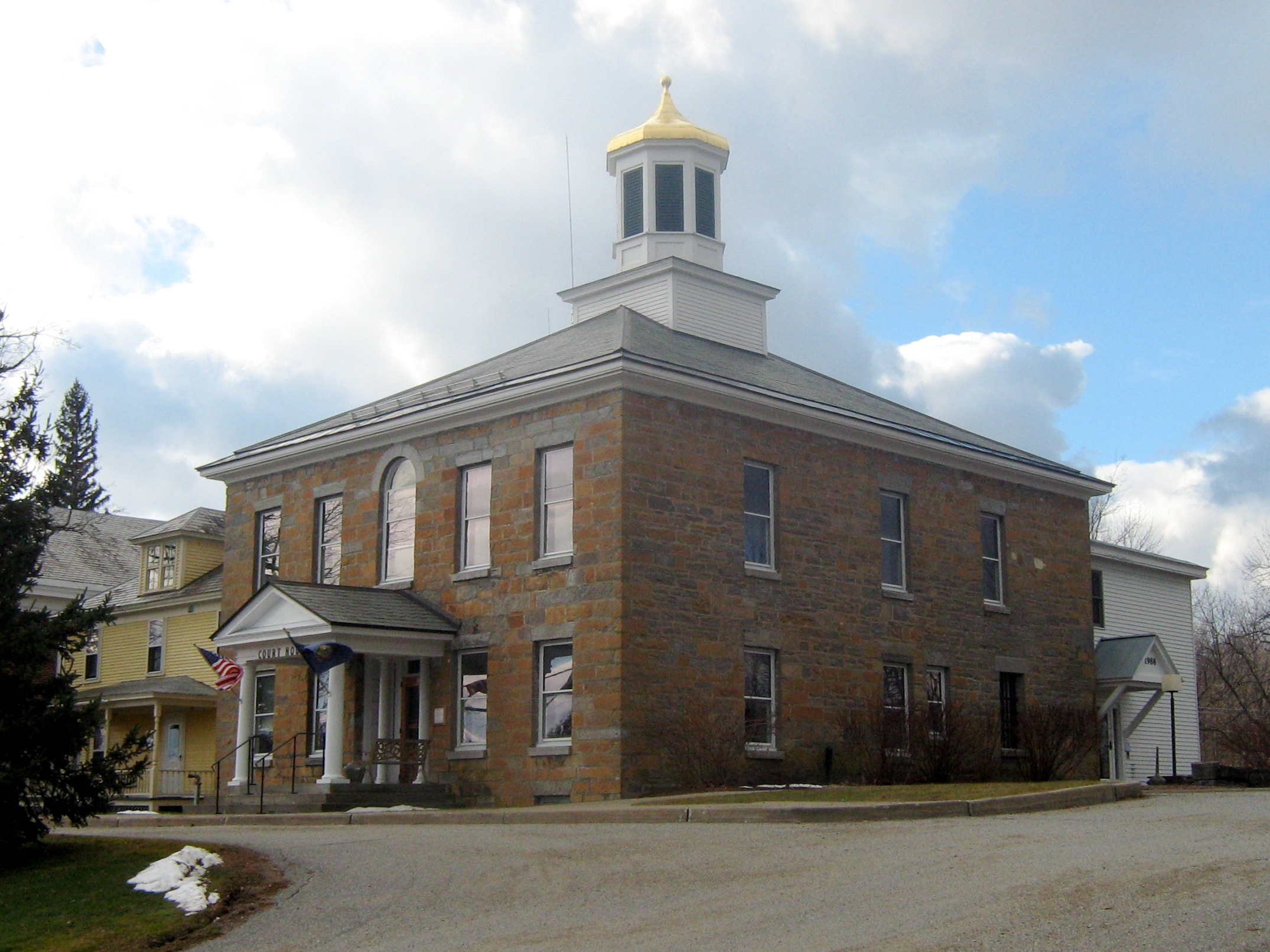 1824 courthouse in North Hero, Vermont, constructed of native marble quarried in nearby Isle La Motte.